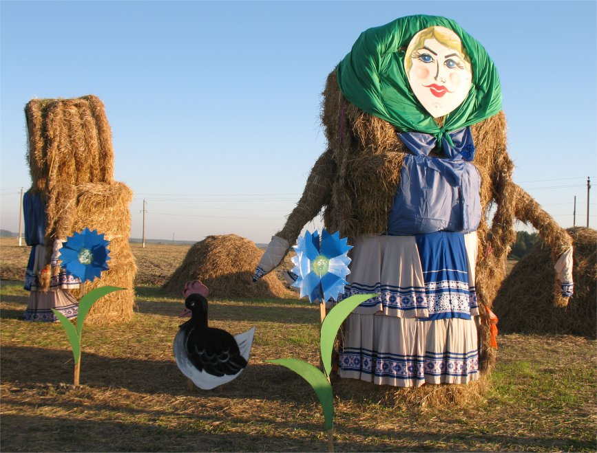 Bale ladies by the road to Turov :), Zhytkavichy, Gomel province, Belarus. Note that also tiny Turov town is located in Zhytkavichy raion. Based on the discussion with photographer + his friend in Oct. 2009, this might be thought as an example of seasonal countryside humor or folk art. Several cars and trucks stopped to take photo of this piece; it was found funny. It shows one little part of real Belarus. There were this kind of humor at least in two different locations by the same road. Creators / authors of these "bale ladies" were not marked.